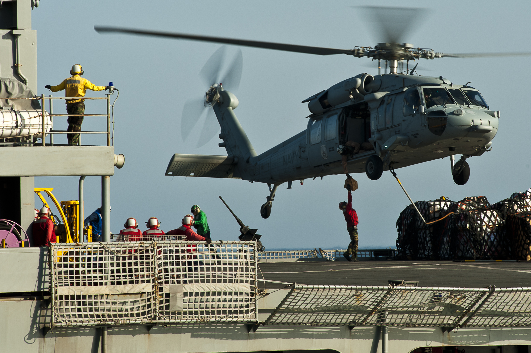 ARABIAN SEA (Oct. 20, 2011) An MH-60S Sea Hawk assigned to the Eightballers of Helicopter Sea Combat Squadron HSC-8, lifts cargo from the Military Sealift Command fast combat support ship USNS Rainier (T-AOE7) during a vertical replenishment with the Nimitz-class aircraft carrier USS John C. Stennis (CVN 74). John C. Stennis is deployed to the U.S. 5th Fleet area of responsibility conducting maritime security operations and support missions as part of Operations Enduring Freedom and New Dawn. (U.S. Navy photo by Mass Communication Specialist 3rd Class Benjamin Crossley/Released)